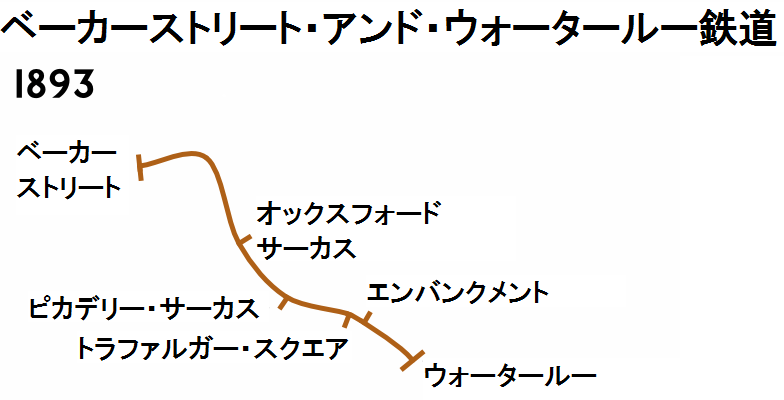 Geographic Map of the Baker Street & Waterloo Railway route, 1893.